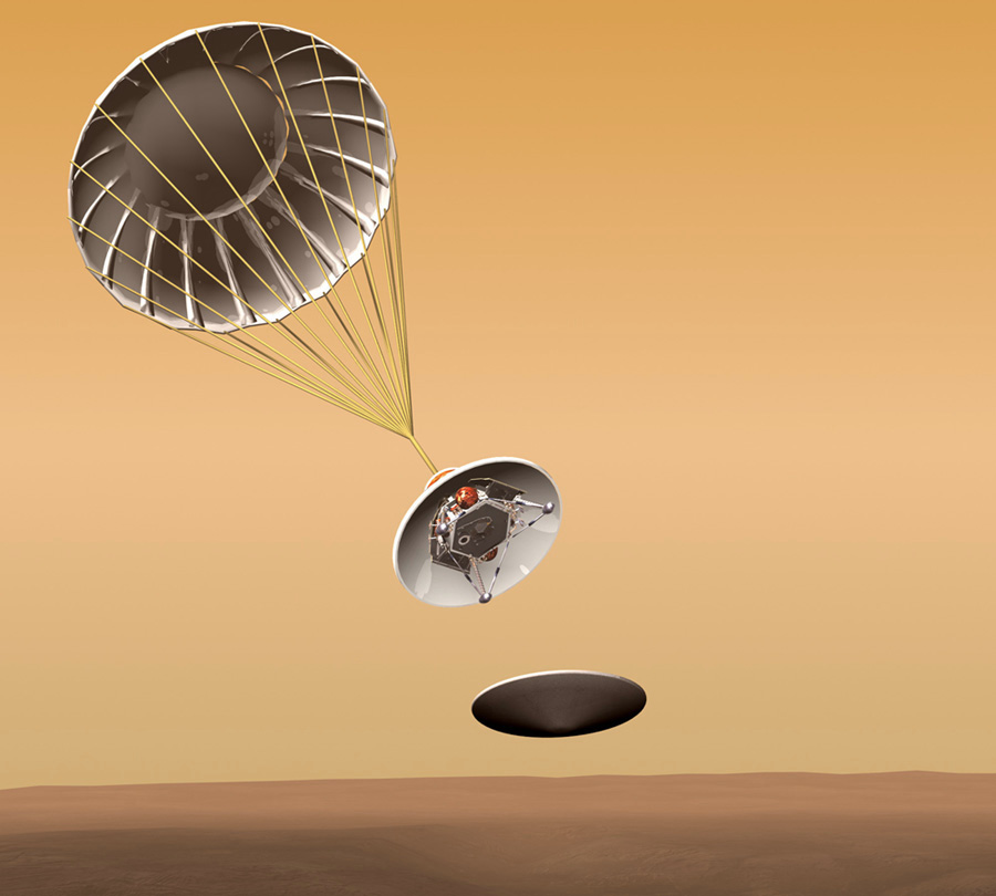 The Mars Polar Lander descending to the surface of Mars. In this scene the saucer-shaped aeroshell has just been jettisoned.